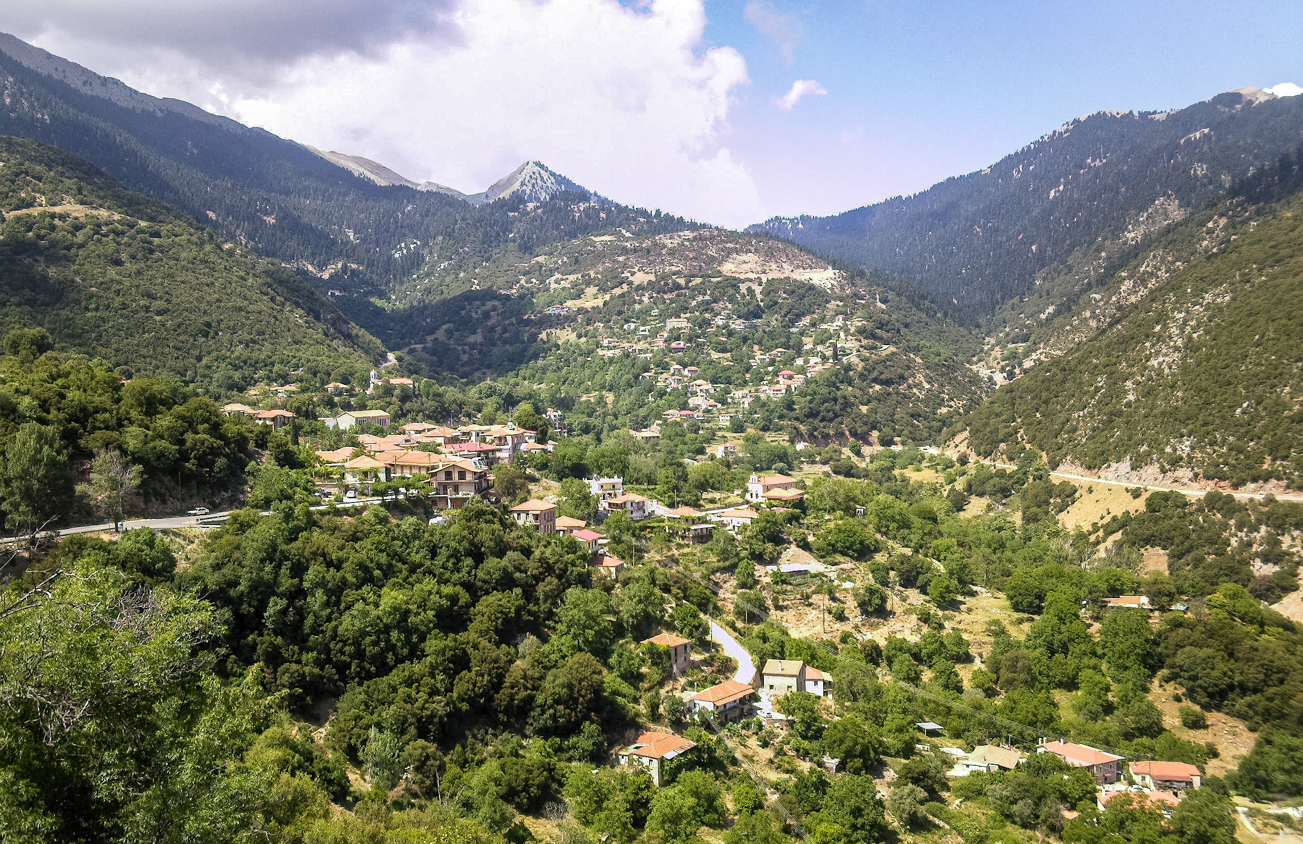 Lampeia (Divri) village, Ileia, Greece. General view of the village.